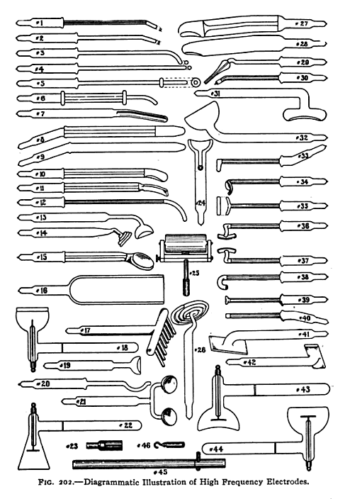 Collection of electrodes used in high frequency electrotherapy, a Victorian era medical therapy in which high voltage radio frequency electricity from a Tesla coil or Oudin coil was applied to the body to treat various ailments. The electrodes plugged into the end of an insulated handle (45) connecting them to a wire from the high voltage terminal of the coil. The electrodes were of two types. The upper instruments consist of a metal point that produced a corona discharge (this was called "effluve") that was played over the patient's body without getting close enough for a spark to jump. The lower electrodes consist of a metal terminal sealed inside a partially evacuated glass tube of various shapes. These were used for contact therapy and within the patient's body through the mouth, vagina or anus. The high voltage ionized the gas in the tube, allowing the RF current to flow through the gas and through the glass wall of the tube into the patient's body. The patient usually held a metal electrode attached to ground to provide a return path for the currents.